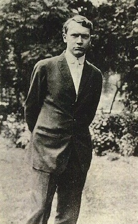 a photo of poet Vachel Lindsay circa 1912